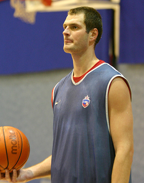 Photo of Martin Muursepp taken during a training in Moscow.